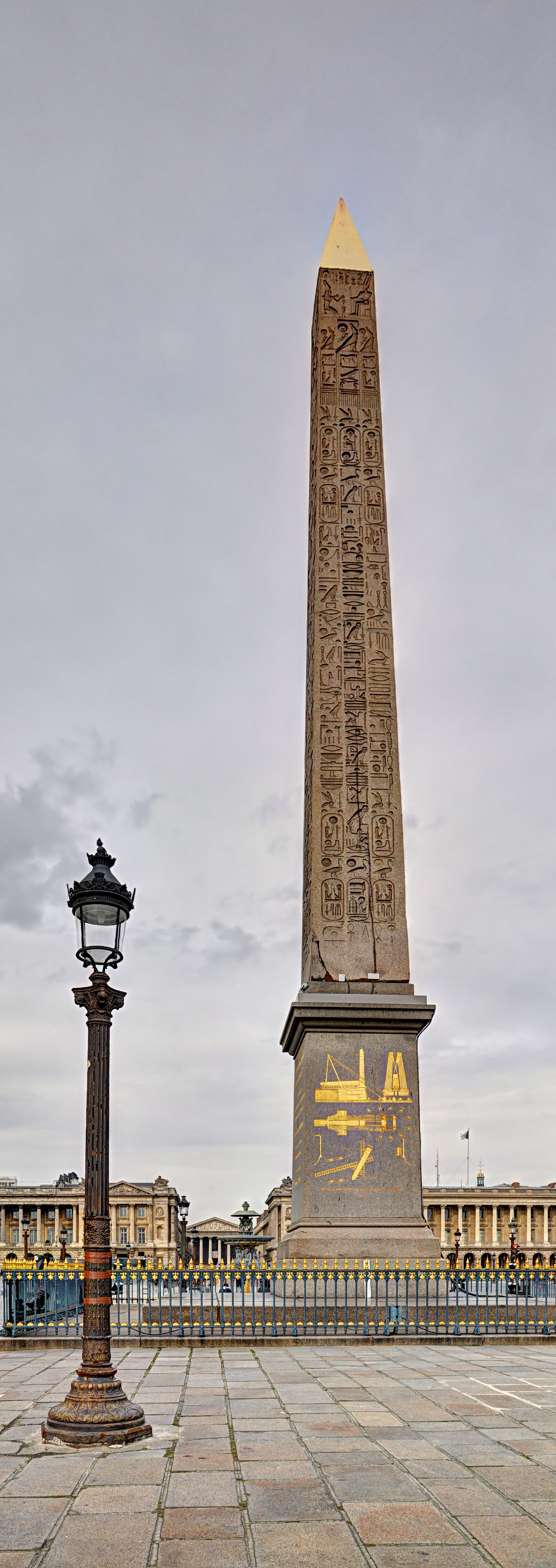 Luxor Obelisk at the Place de la Concorde in Paris, France.